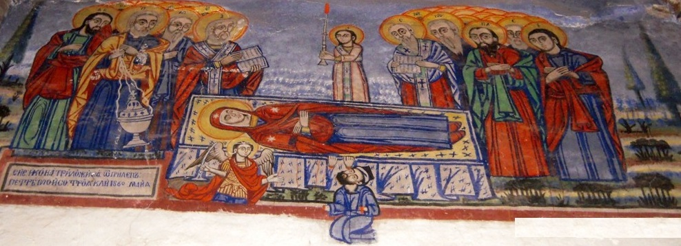 Fresco in St Nicholas Church in Toplica